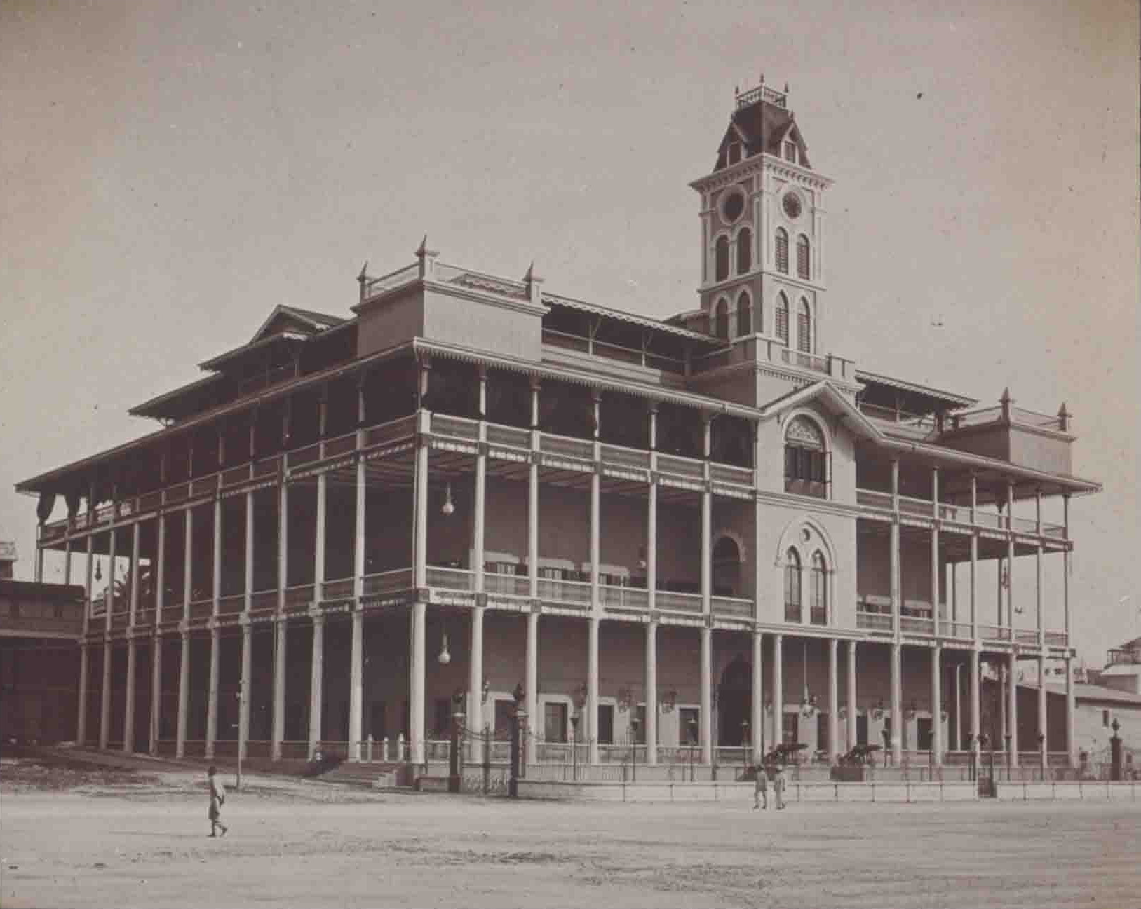 Beit al Ajaib (House of Wonders) — in Stone Town, Category:Zanzibar City (1907). Original description Text auf dem Bild: 72 / 256. Dernburg-Reise 25 Zanzibar, Sultanspalast Entstehungsjahr: 1907 Photograph: Camera-Fabrik Ica, Akt.-Ges. Nach entsprechendem Hinweis das der Sultanspalast - vom Meer her gesehen - links dieses Gebäudes stehe, ist die Beschreibung dieses Bildes in Wikipedia/Wikimedia Commons auf House of Wonders in Sansibar korrigiert worden.